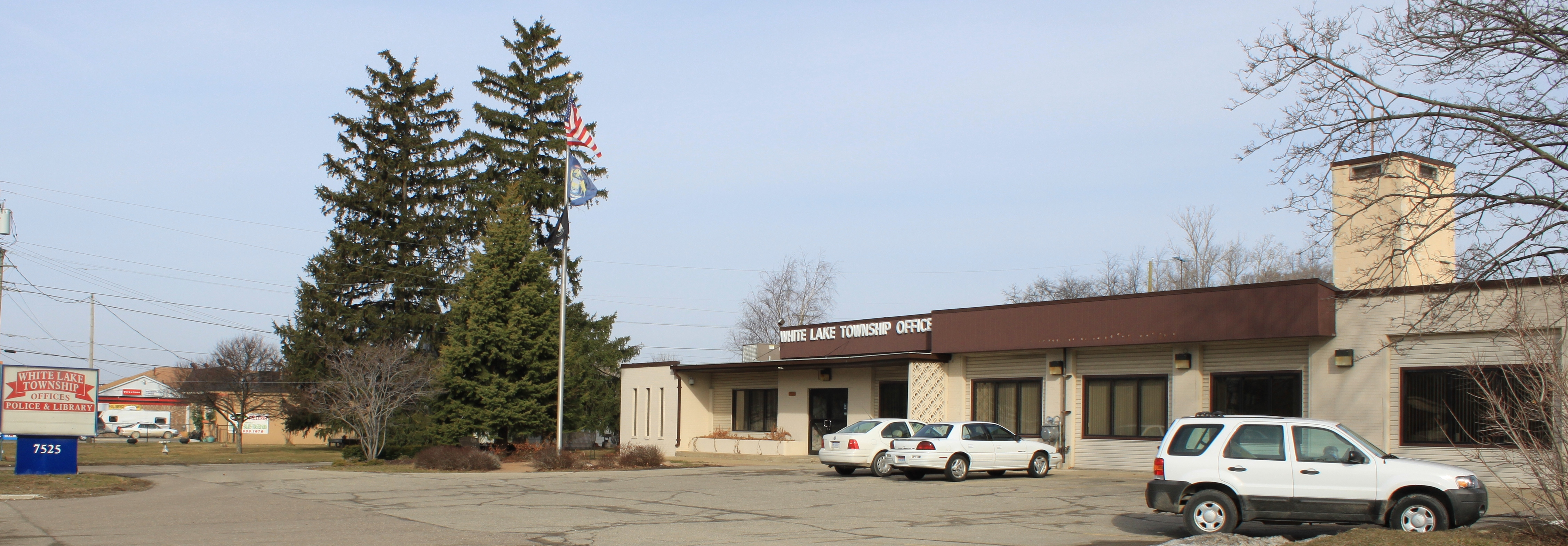 White Lake Township Offices, 7525 Highland Road, White Lake, Michigan